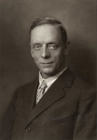 Theodor Christian Brun Frølich, Norvegian pioneer in scurvy research.